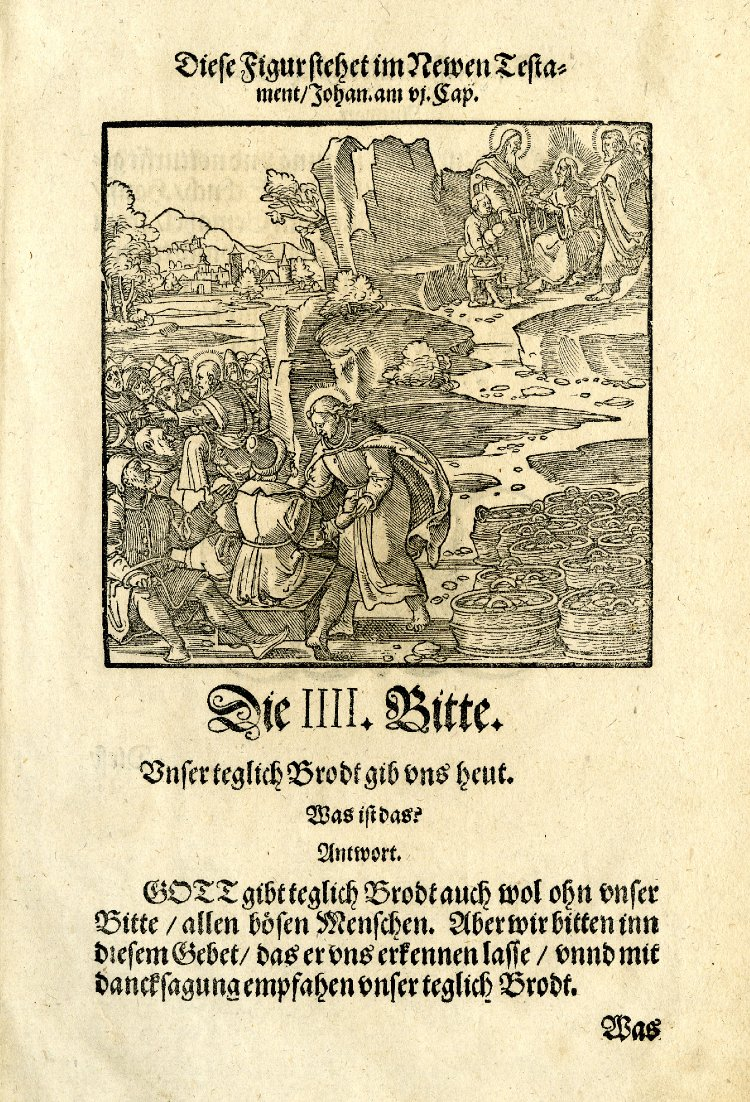 Woodcut by Hans Brosamer of the Miracle of the Feeding of the Five Thousand from the 1550 Frankfurt edition of the small Catechism of Martin Luther